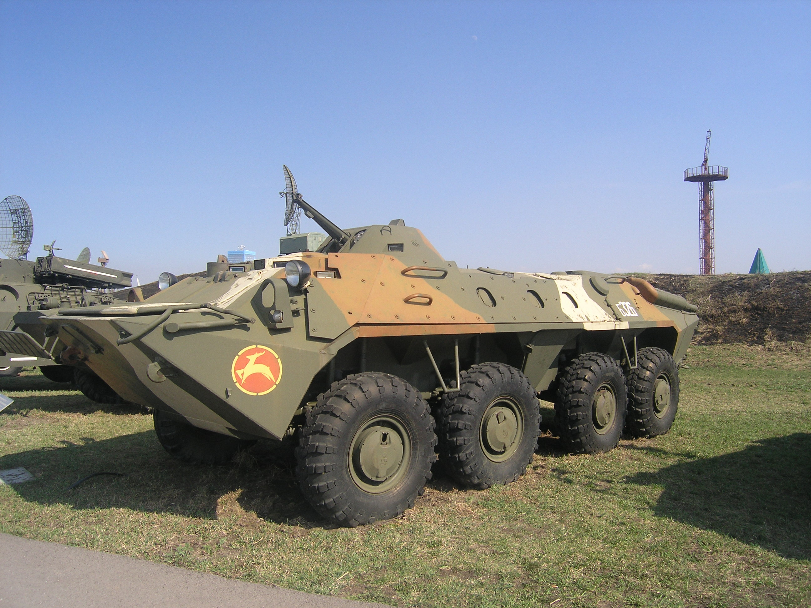 BTR-70, technical museum, Togliatti, Russia